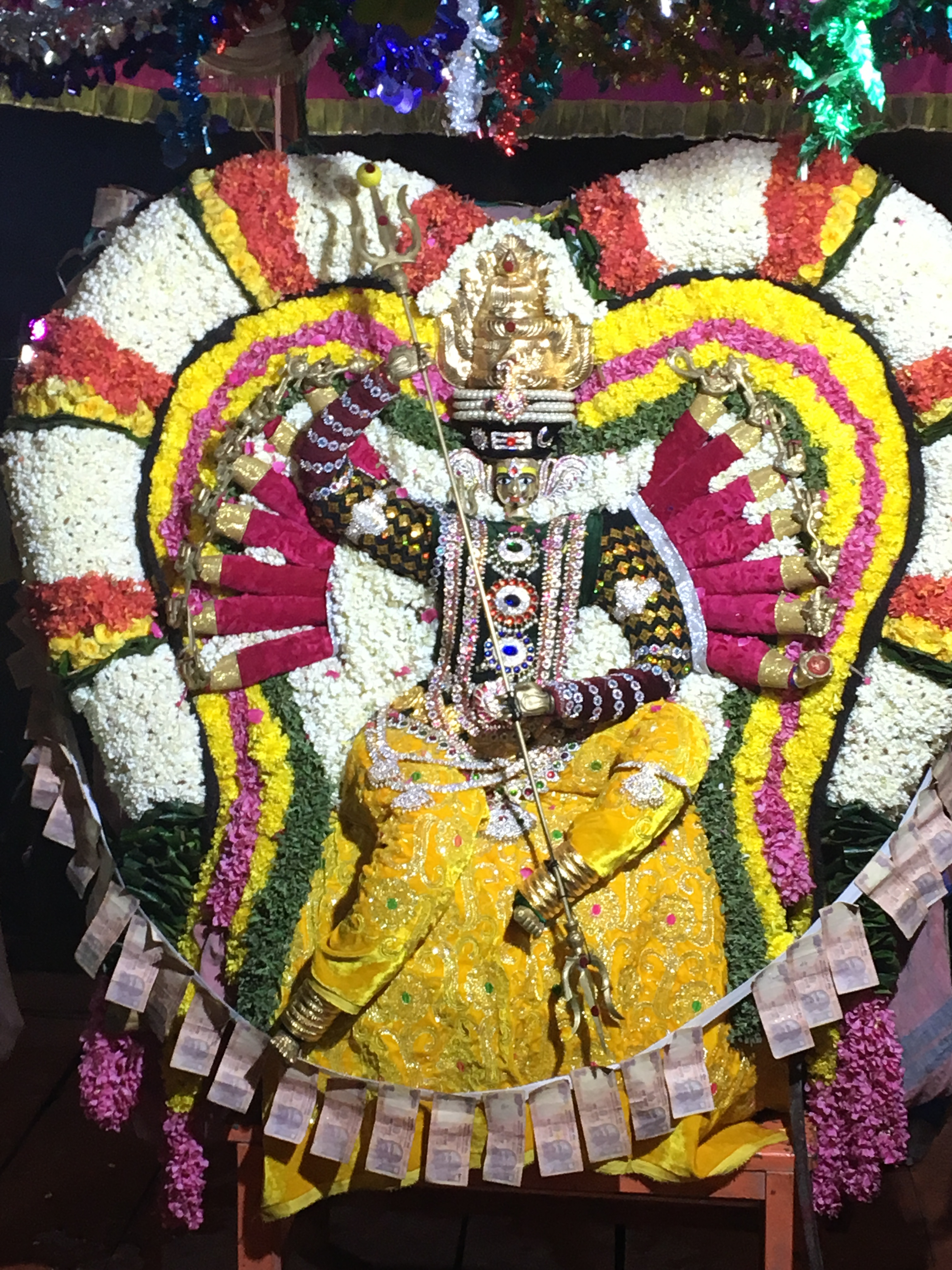 Sri Ellamman temple is located at Nathanallur, Kanchipuram District.